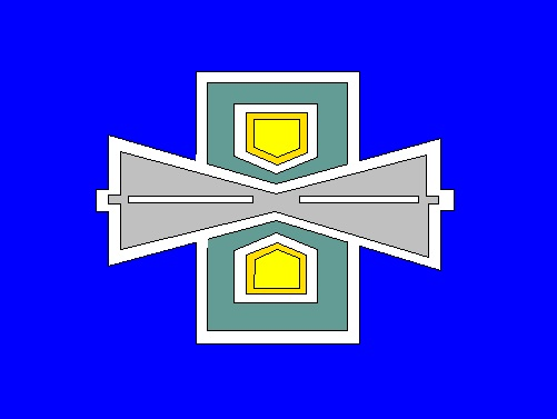 Flag of hachirogata Akita